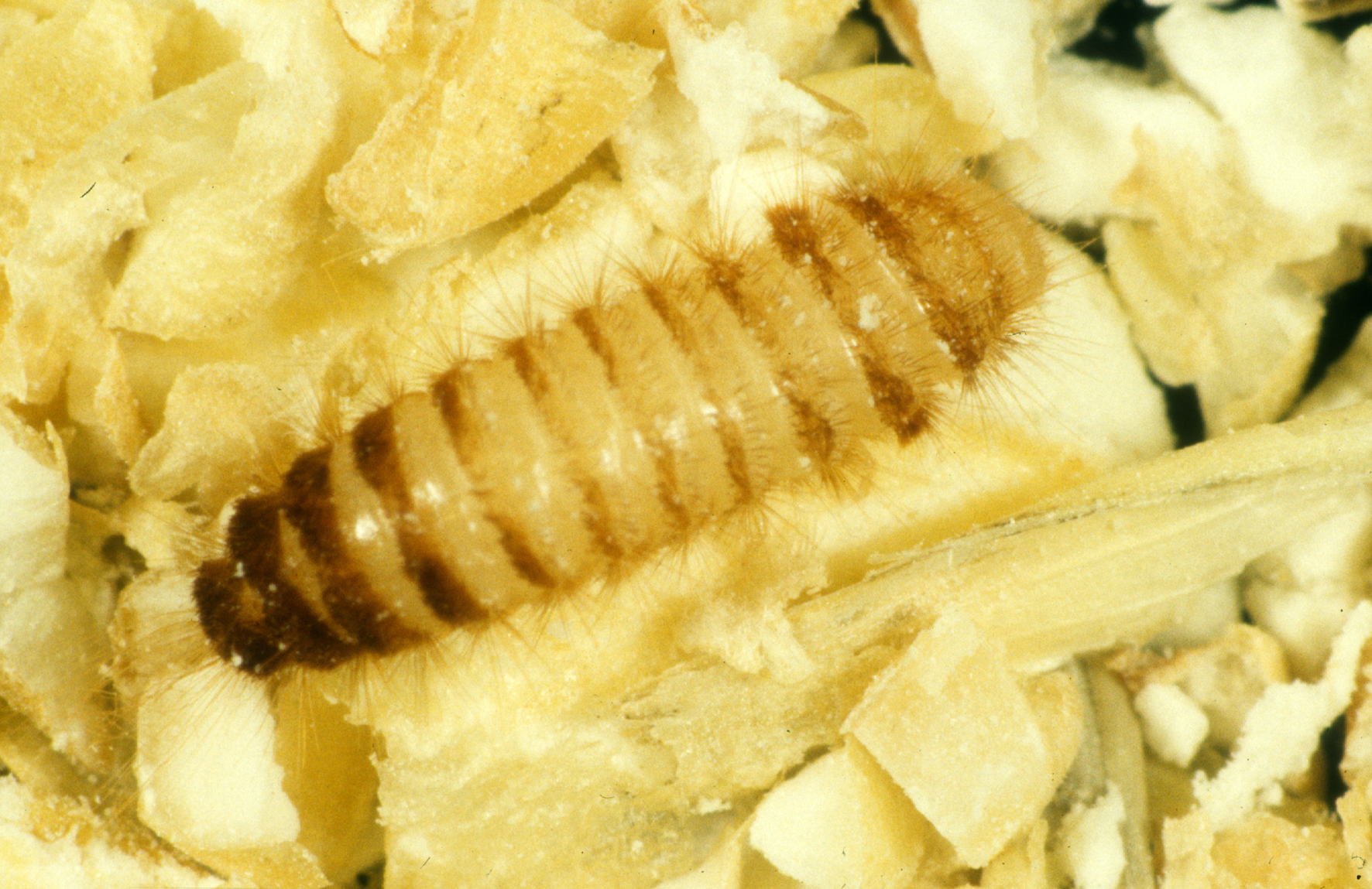 This insect is a pest in stored grains. For an image of the beetle stage please see BE1016.